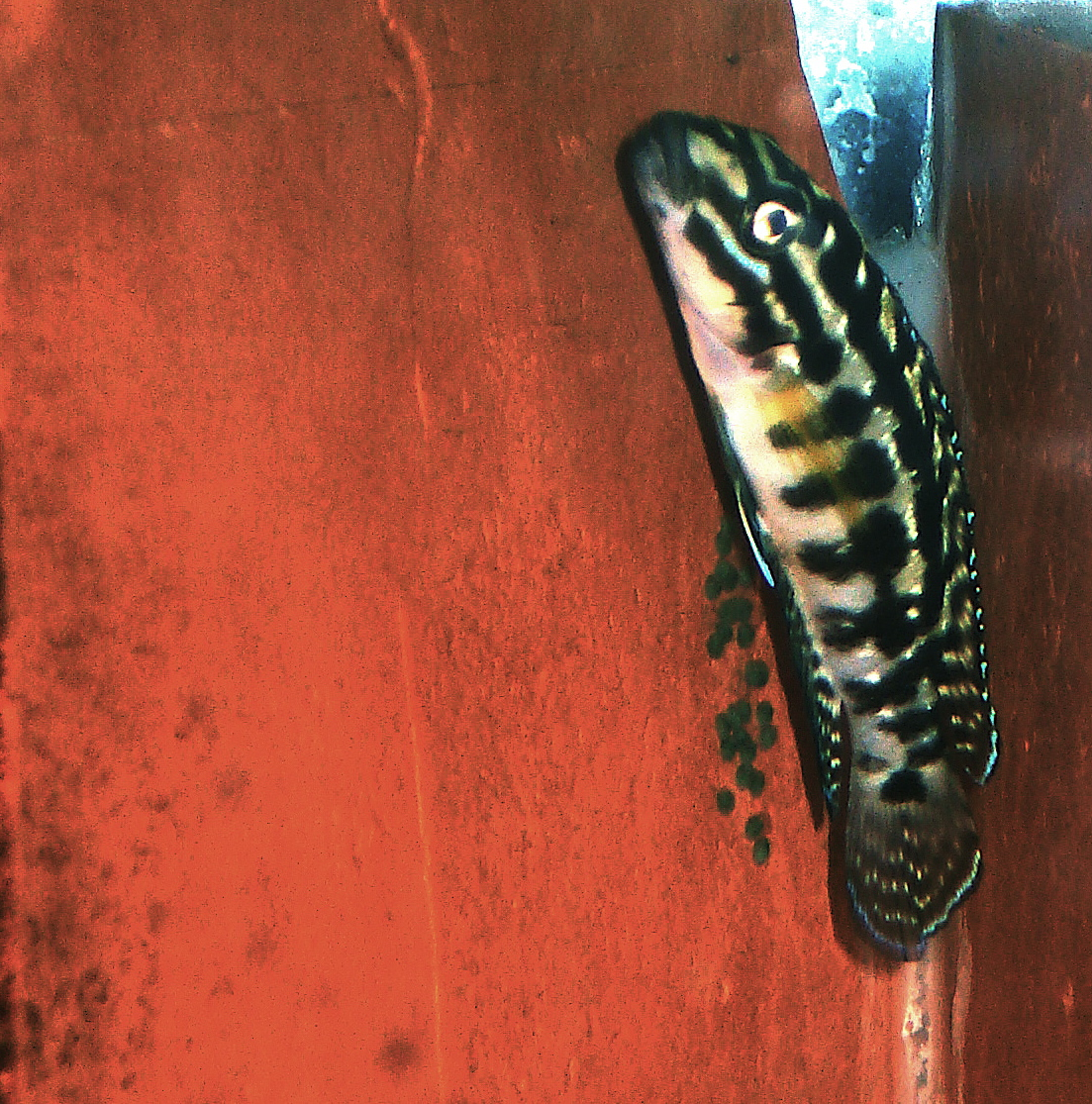 A male Julidochromis marlieri cichlid (Lake Tanganyika) guards his eggs on the wall of the nest